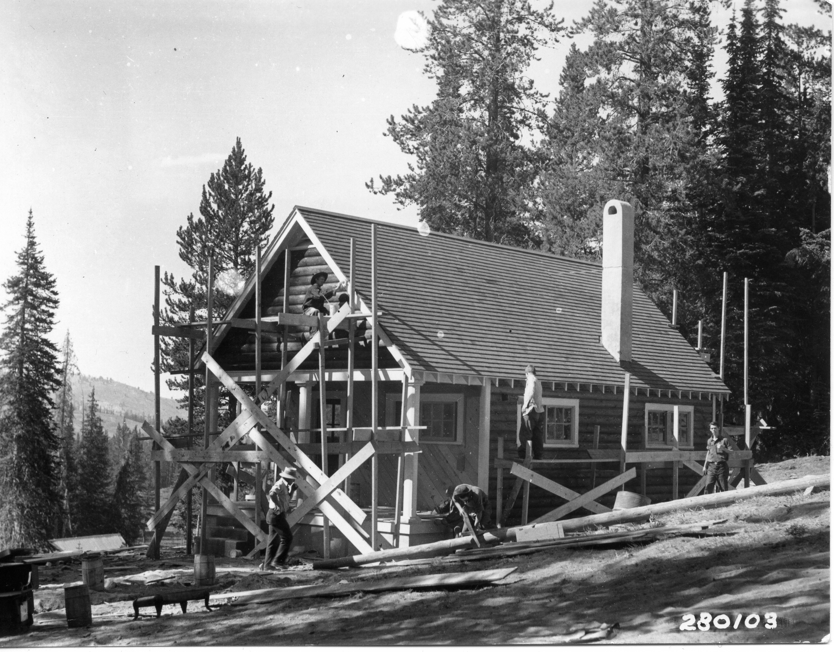 Creator: U.S. Forest Service Image Title: CCC crew constructing a guard station at the Boise National Forest, Idaho Date.Original: 1933-00-00 Description/Notes: USFS photo #280103 Original Form: Gelatin silver prints Original Collection: Gerald W. Williams Collection Collection series: Civilian Conservation Corps album Item Number: WilliamsG:CCC guard house Restrictions: Permission to use must be obtained from the OSU Archives. Transmission Data: Master scanned with Epson 1640XL scanner at 800 dpi., 8 bit gray scale. Image manipulated with Adobe Elements 4.0. Date.Digital: 2008-04-10 Contributing.Institution: Oregon State University Libraries Click here for further information or a high resolution copy of this image. Click here for more information on the Gerald W. Williams collection. Click here to view Oregon State University's other digital collections. We're happy for you to share this digital image within the spirit of The Commons; however, certain restrictions on high quality reproductions of the original physical version may apply. To read more about what ?no known restrictions? means, please visit the OSU Archives website.